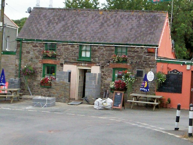 The Huntsman Inn, Rosemarket.